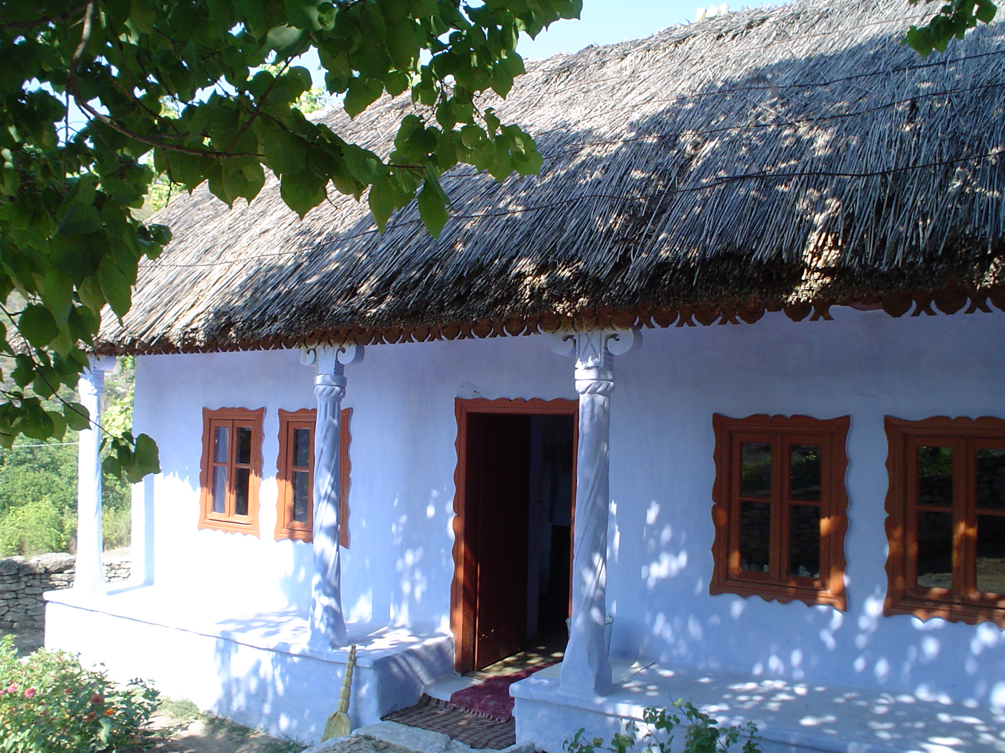 2007-07-18 Orheiul Vechi, Moldova: Traditonal house in the village museum.